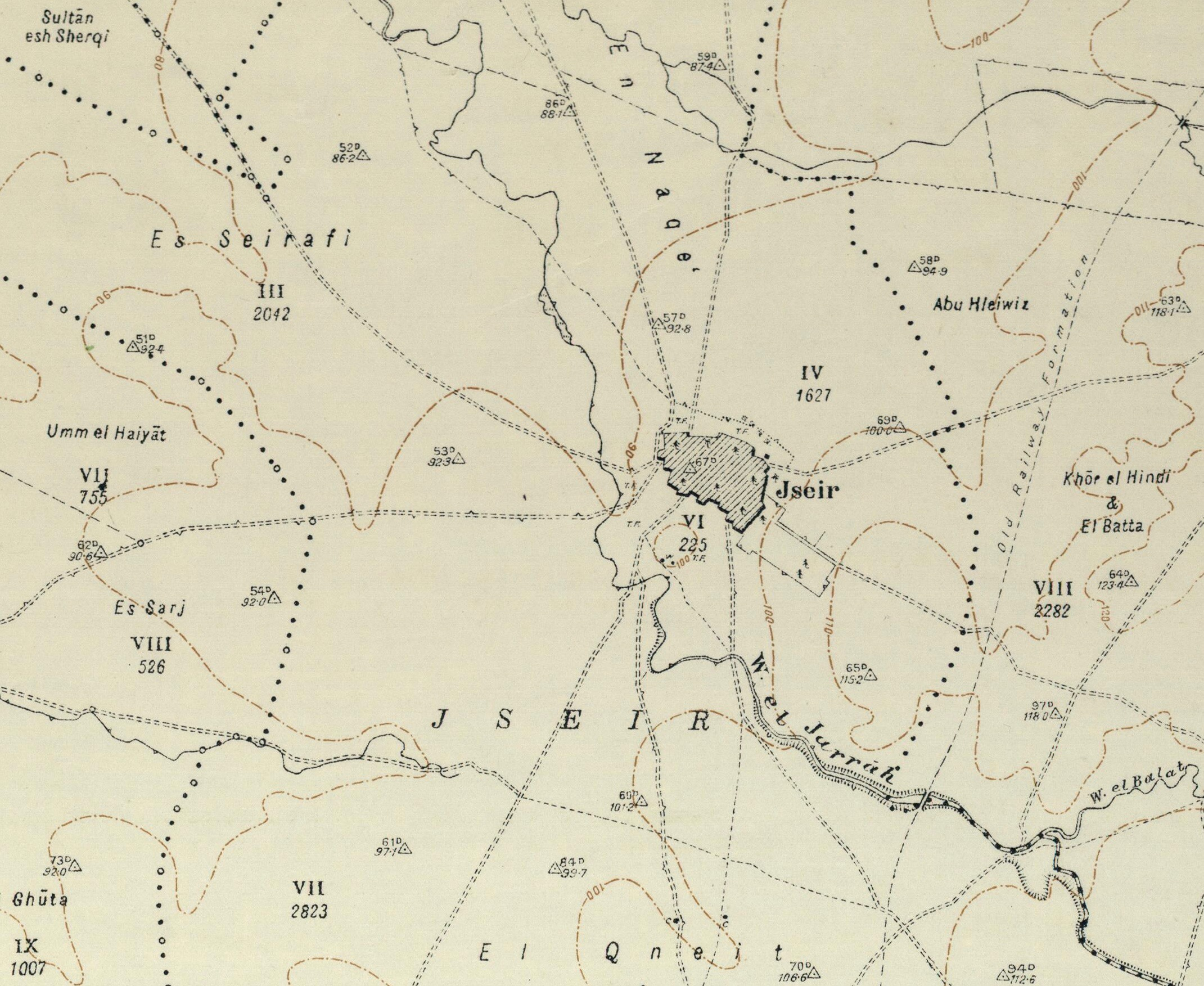 Jseir 1931 1:20,000